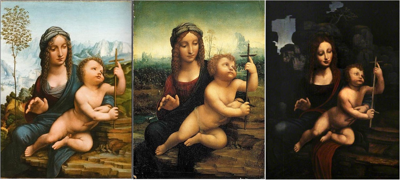 Held at (from left to right): Louvre, Paris; private collection? (sold on Christies) and Christ Church Oxford.